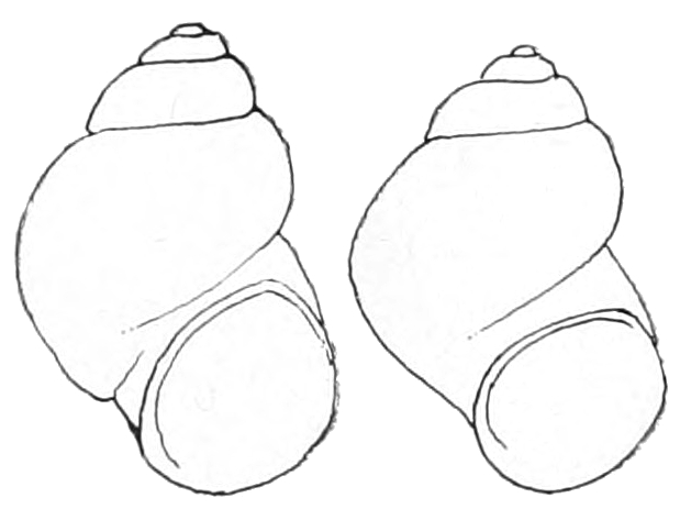 Drawing of apertural view of the shells of Pyrgulopsis deserta.